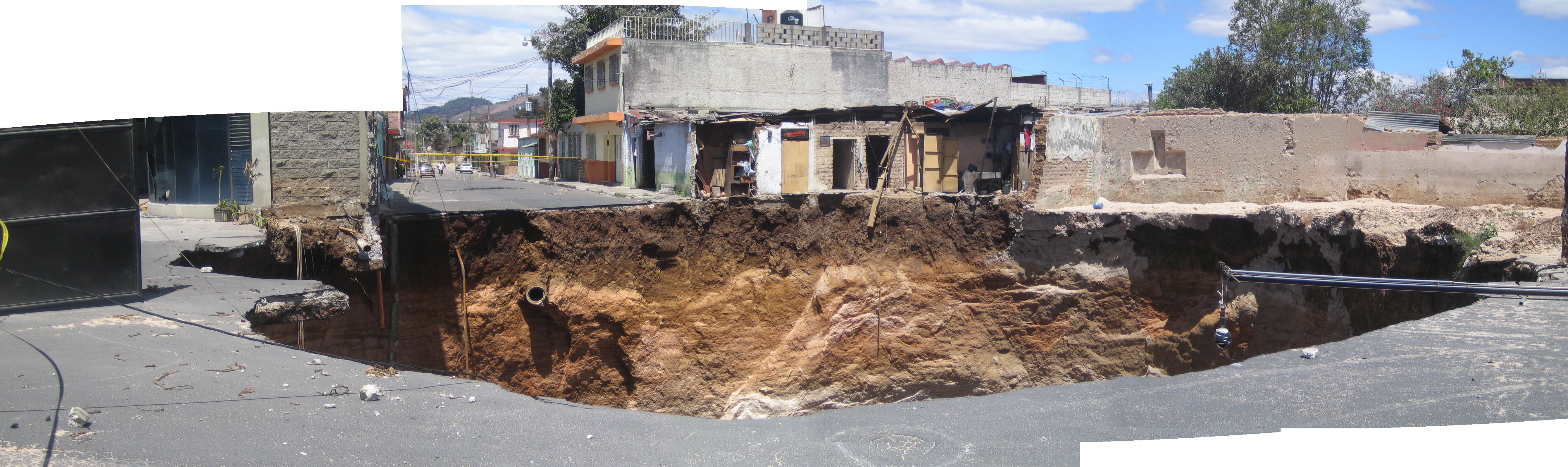 A composite image of the 2007 Guatemala city sinkhole.